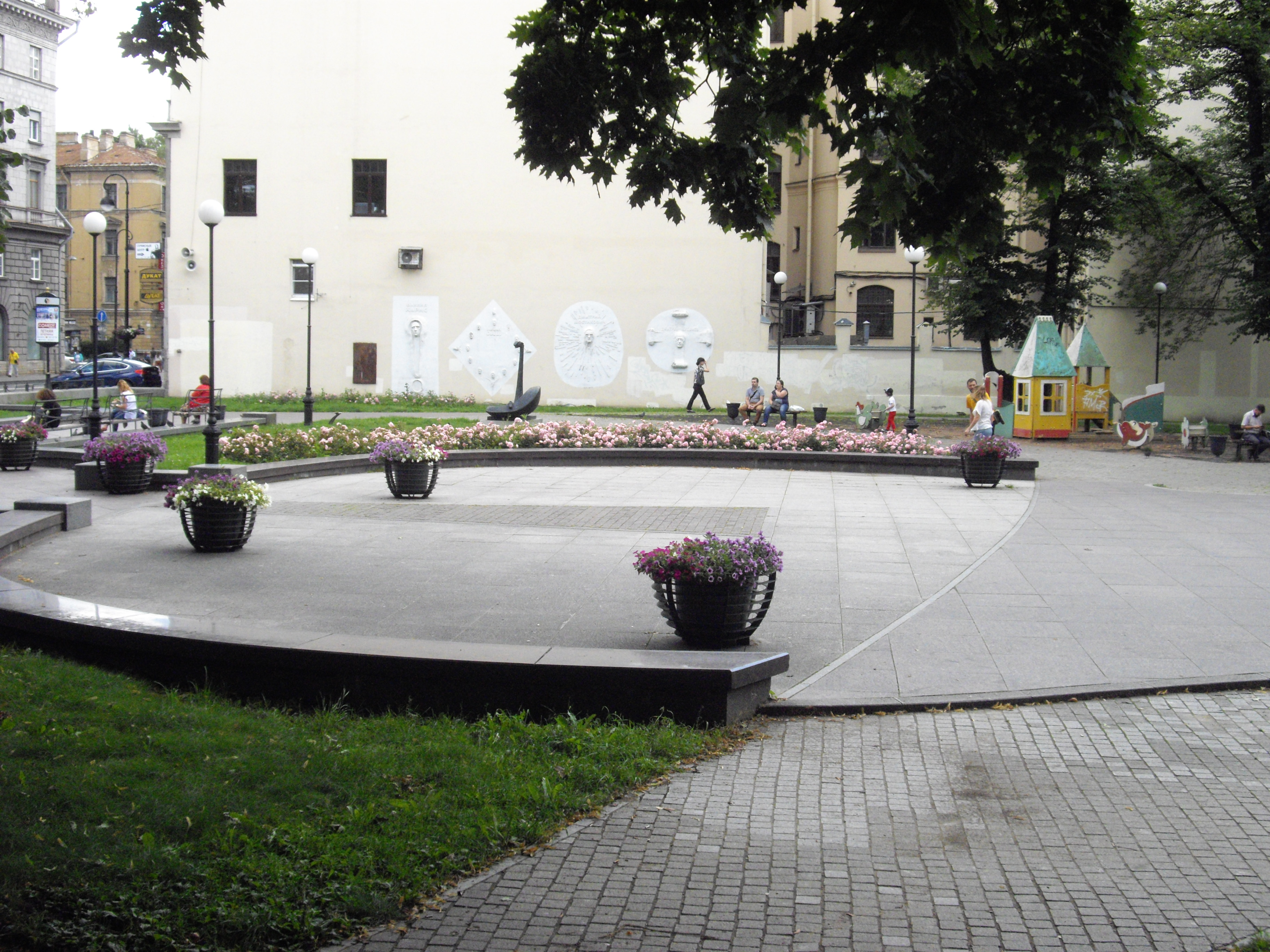 Andrey Petrov's Garden in Saint Petersburg